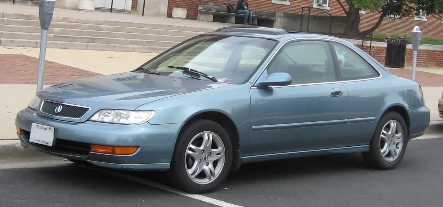 Acura CL photographed in College Park, Maryland, USA.